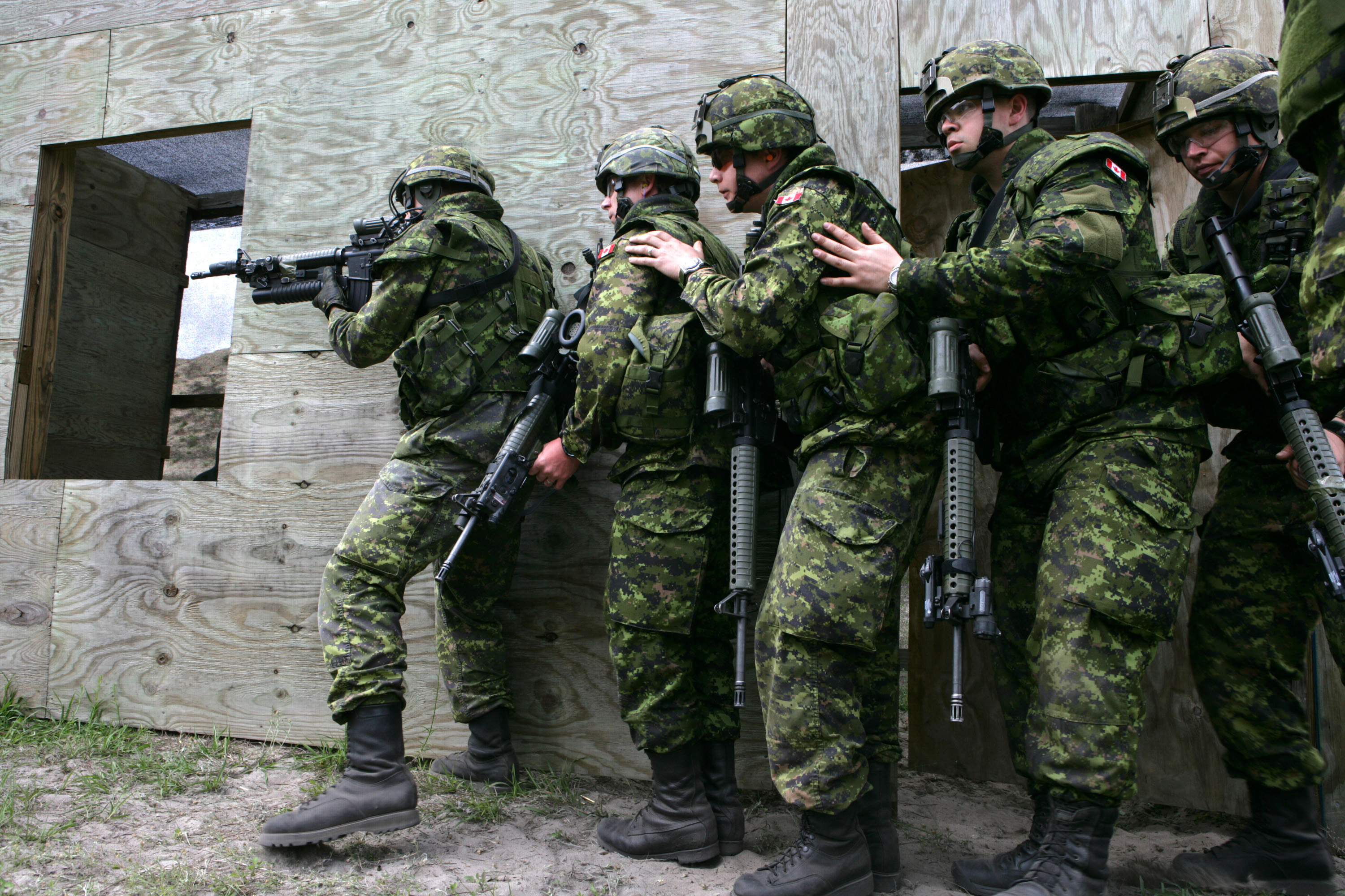 Soldiers of Alpha Company, 3d Battalion, Royal 22d Regiment (the "VanDoos:), Canadian Forces, perform military operations in urban terrain (MOUT) techniques during Partnership of the Americas (POA) 2009.